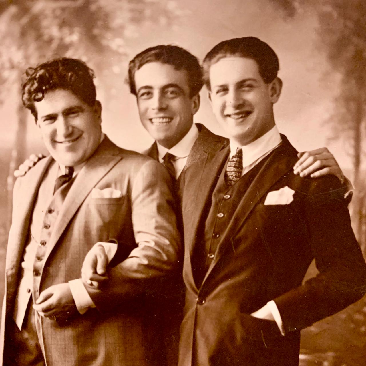 Miguel Faust Rocha (center) with Evaristo Lillo (left) and Raimundo Pastore (right) in 1922.